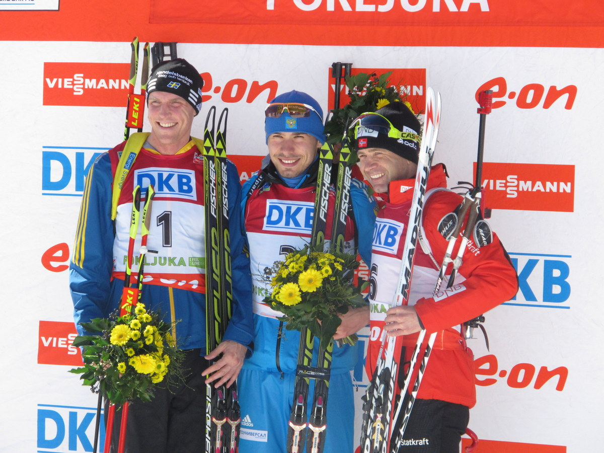 Pokljuka Biathlon World Cup.